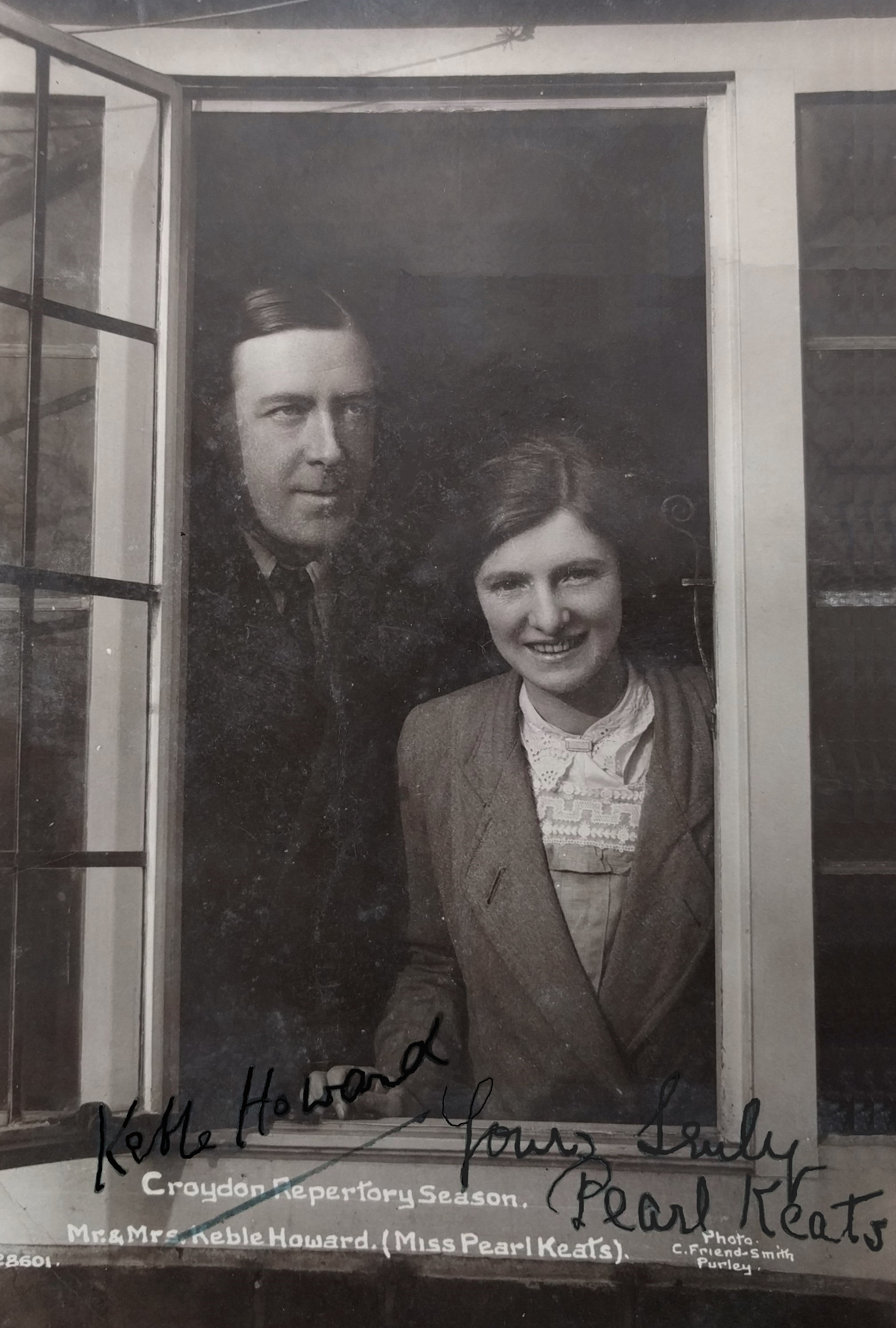 Author Keble Howard and his wife, actress Pearl Keats. Autographed postcard promoting the Croydon Repertory Season, that Howard ran in 1913 and 1914.